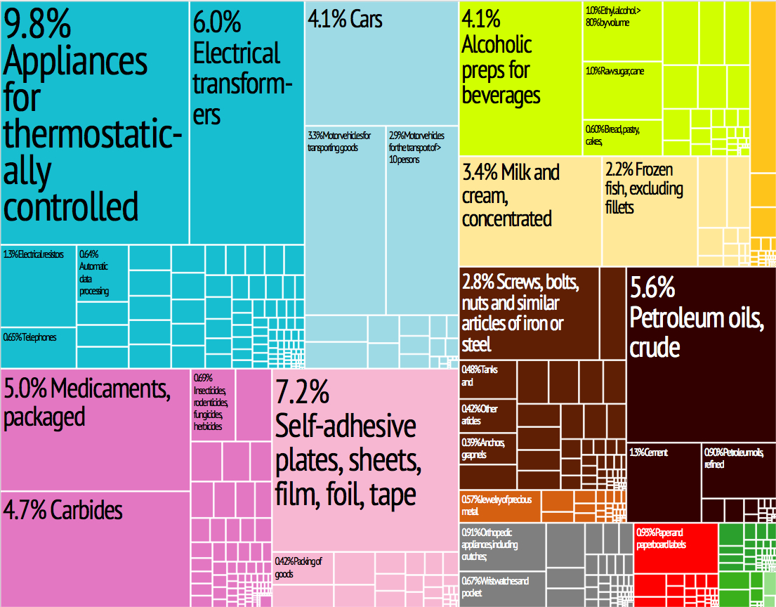 Barbados Export Treemap from MIT Harvard Economic Observatory